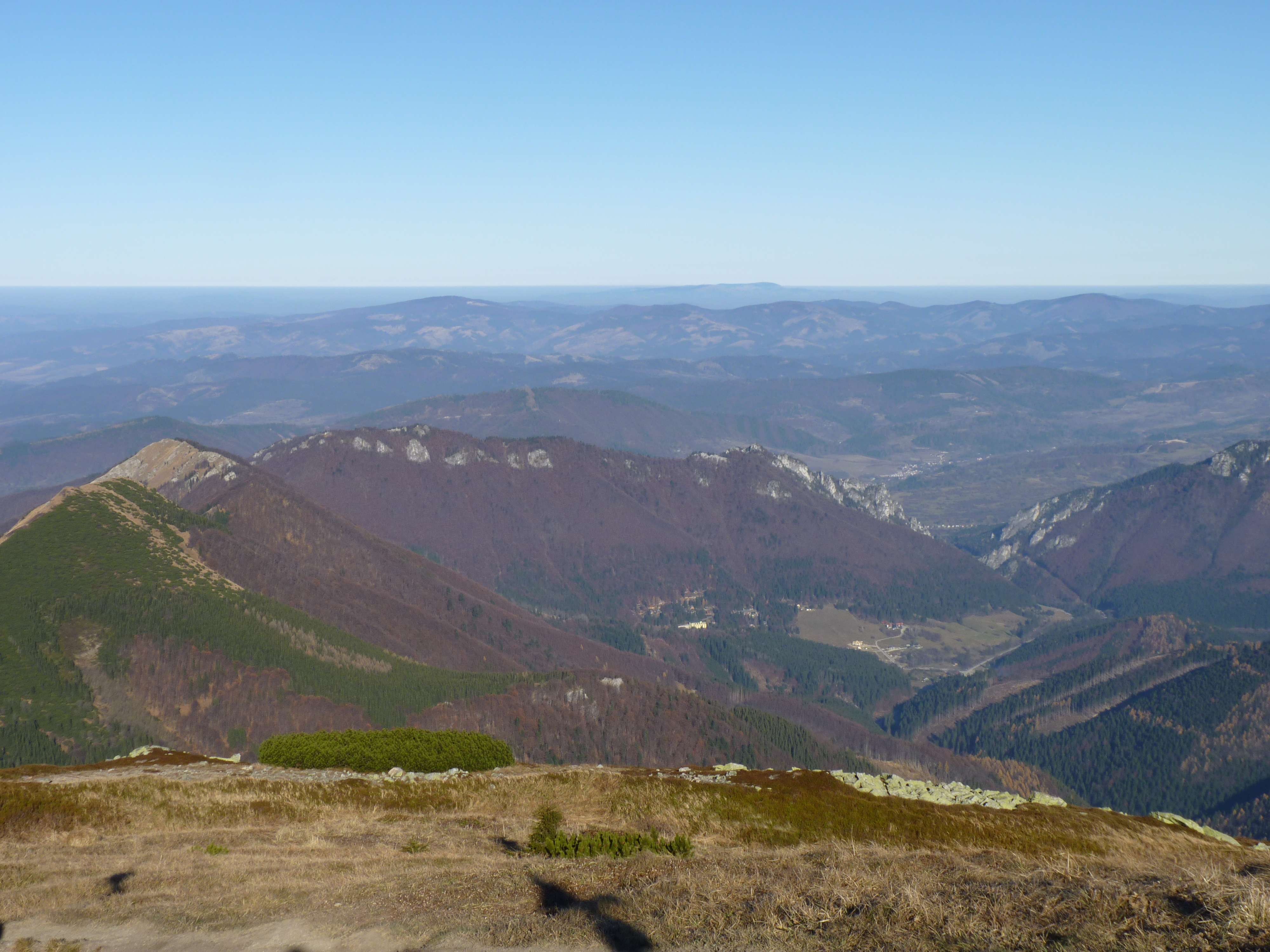 National Park Lesser Fatra, Slovakia